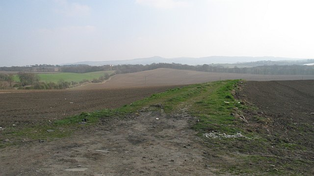 Farm track Newly planted land, on either side of a farm track. Taken from the site of the Antonine Wall.